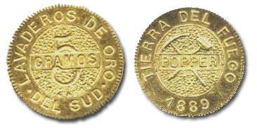 Gold coin of 5 g, issued in Tierra del Fuego by "Lavaderos de Oro del Sud" owned by Julius Popper.